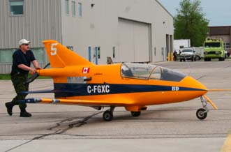 Ron and Phyllis Loewen's Bede BD-5B (C-FGXC), Manitoba Air Show 2007.